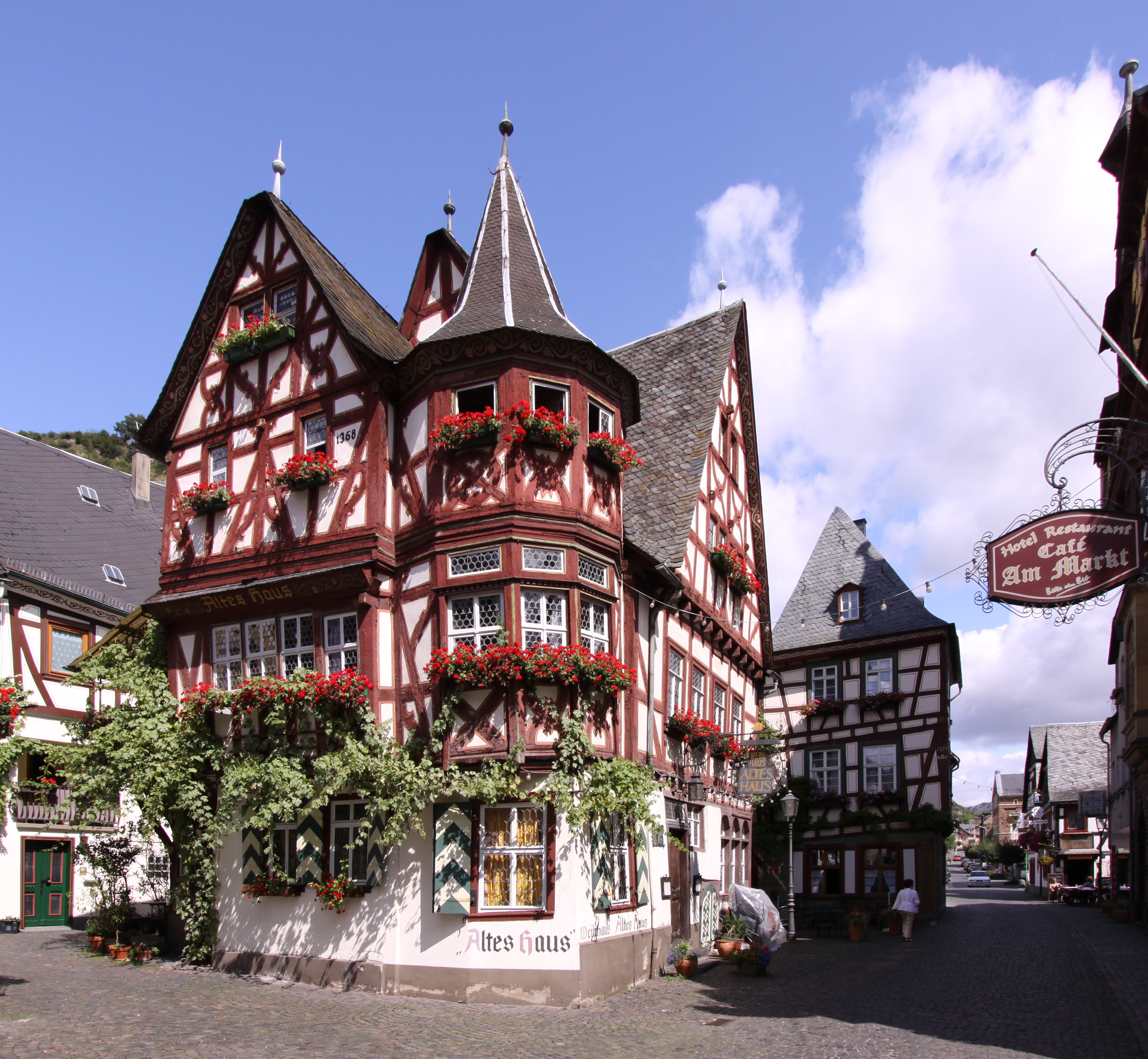 Oldest house of Bacharach on the Middle-Rhine/Germany (heftig perspektivisch verzerrt)